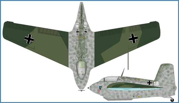 Me163b White18